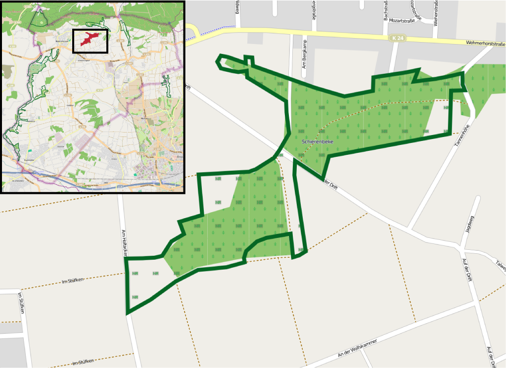 Rödinghausen - Nature reserve Schierenbeke - overview mapNumber and borders of nature reserves are subject to frequent change. In order to facilitate reproduction of this map from openstreetmap, the following data is stored here: export boundaries: north: 52.258; west: 8.49; east: 8.508; south: 52.25; mapnik svg, scale 1:7.000 nature reserve boundary stroke weight 10.0; nature reserve stroke color: R 5, G 102, B 36; municipality border stroke weight: as found